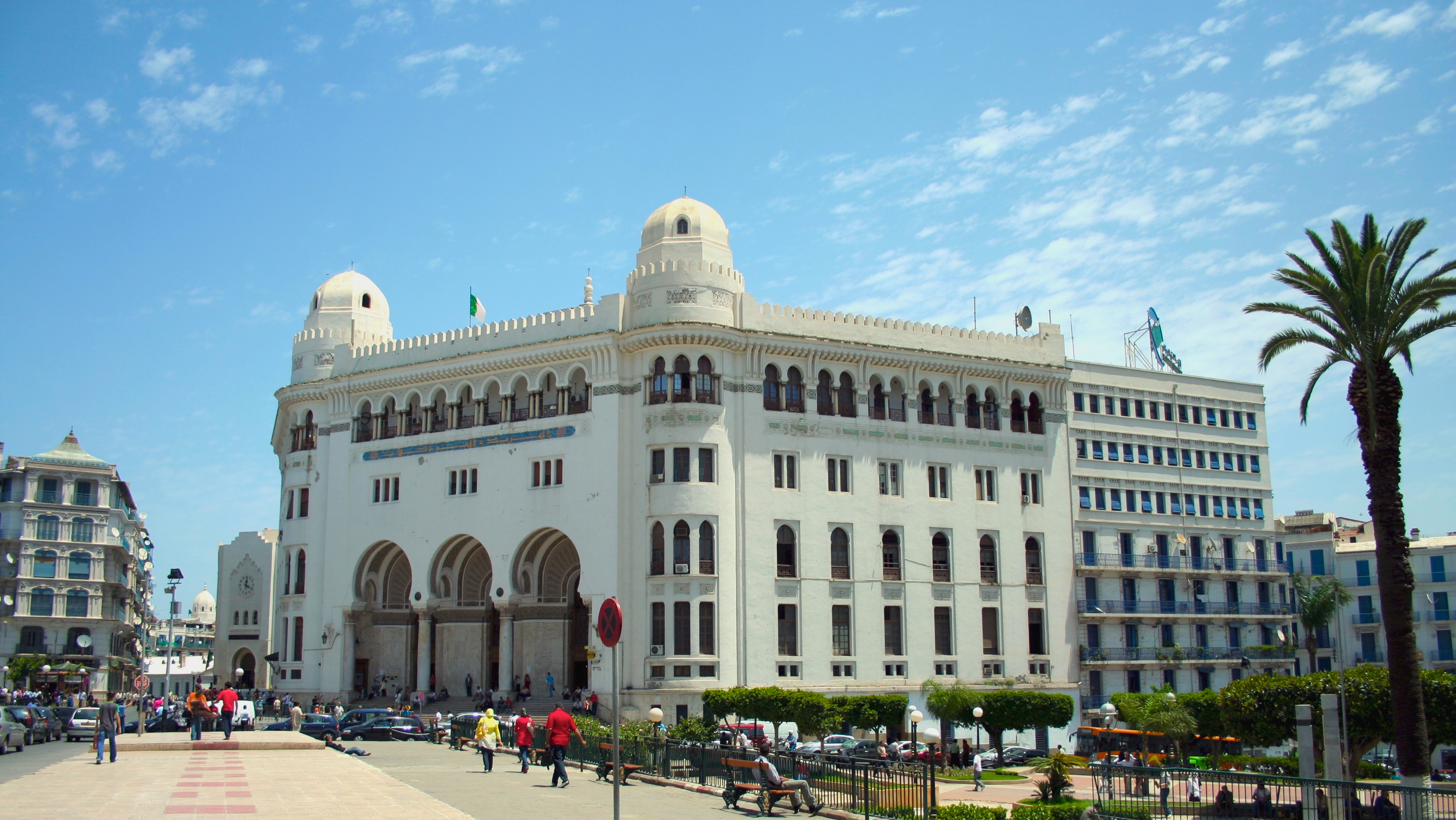 Algiers (Algeria), the Great Post Office ("Grande Poste")